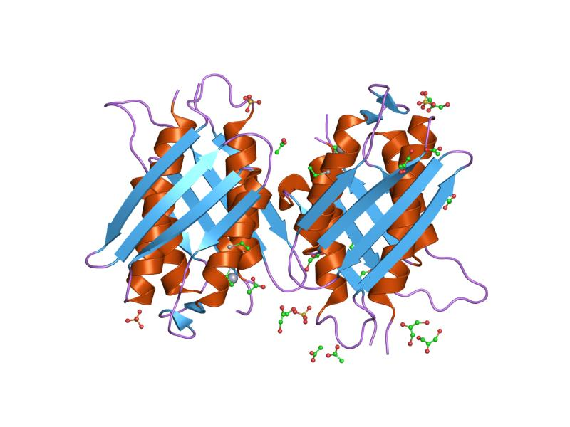 Cartoon representation of the molecular structure of protein registered with 1rhy code.